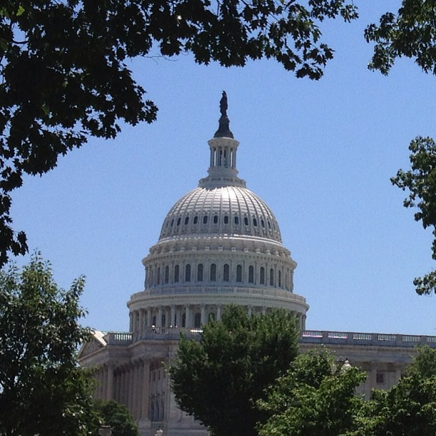 A spectacular Friday afternoon outside in #DC.